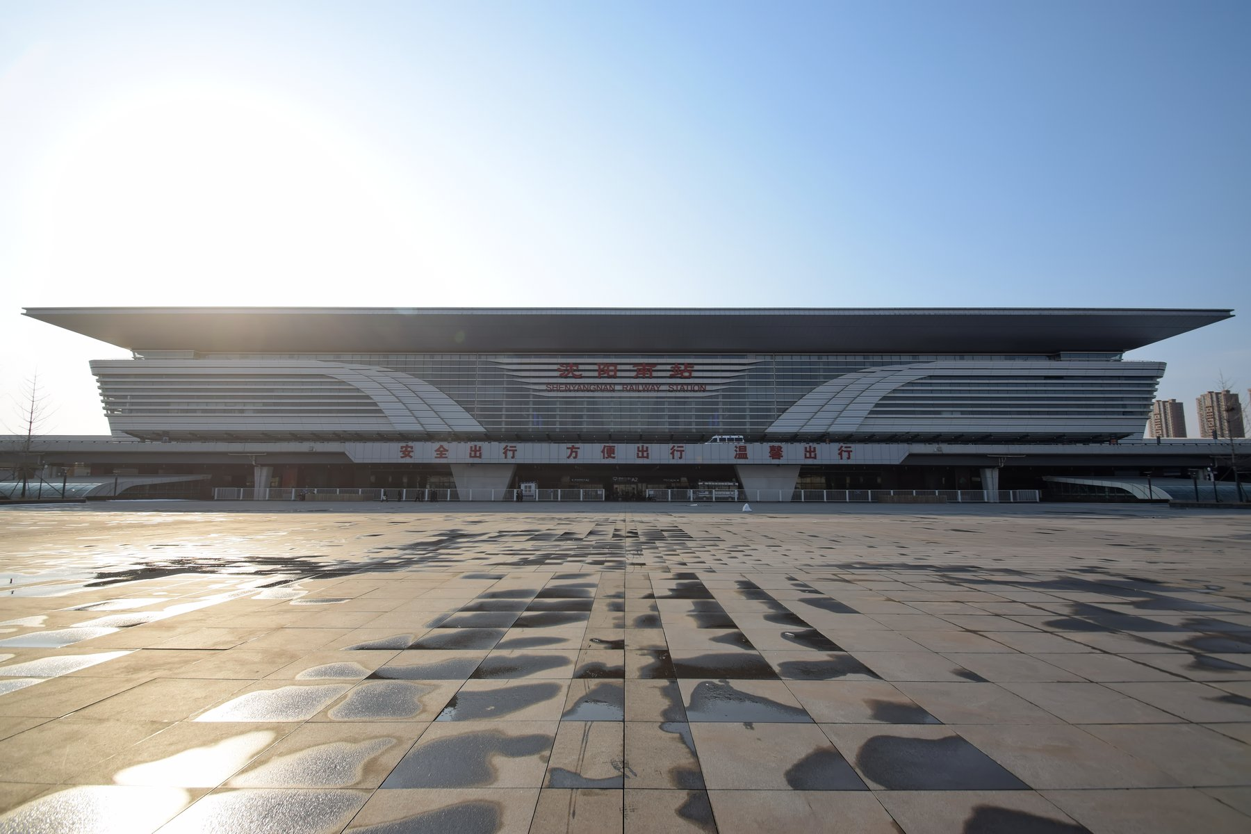 East Square of Shenyang Nan (South) Railway Station